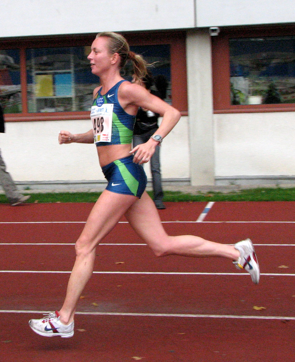 Susanne Pumper running the LCC Half marathon in Vienna